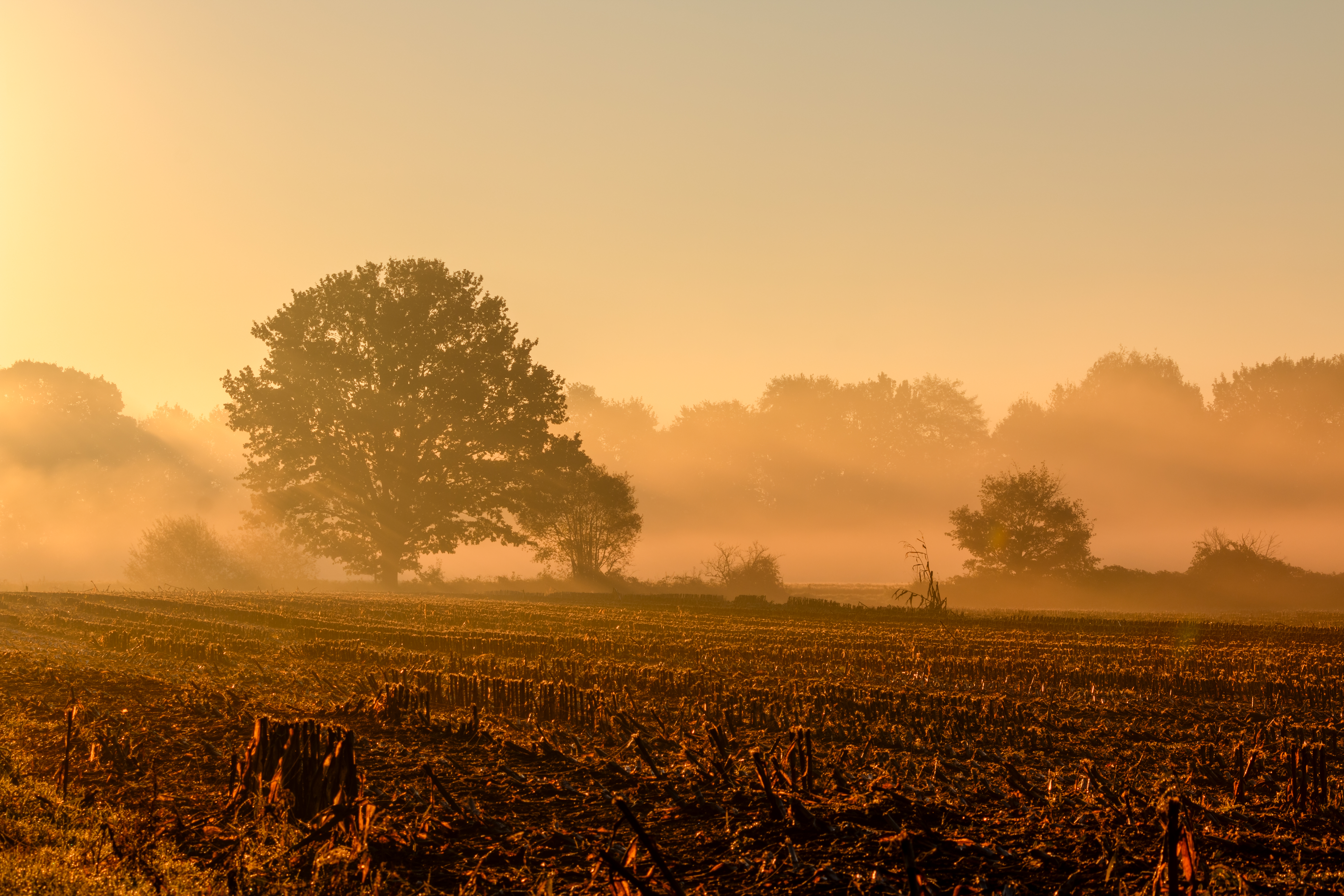 Sunrise in the Börnste hamlet, Kirchspiel, Dülmen, North Rhine-Westphalia, Germany